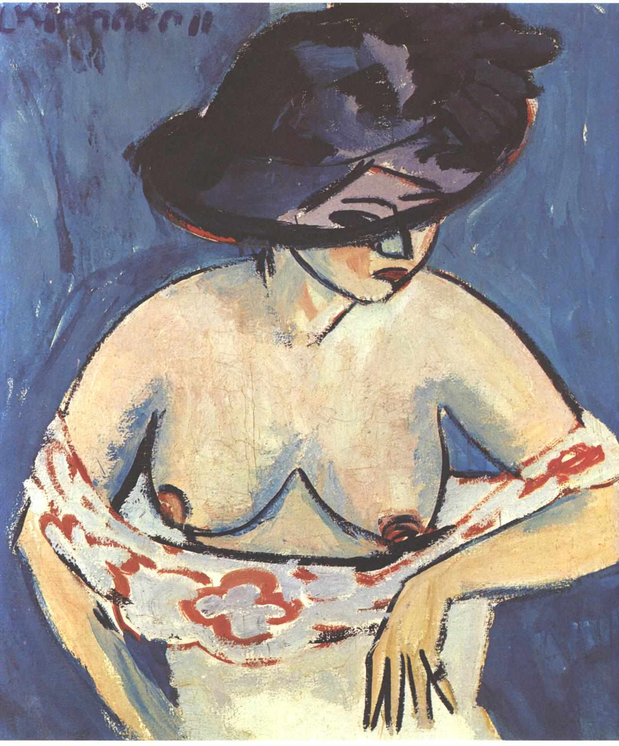 Female with hat